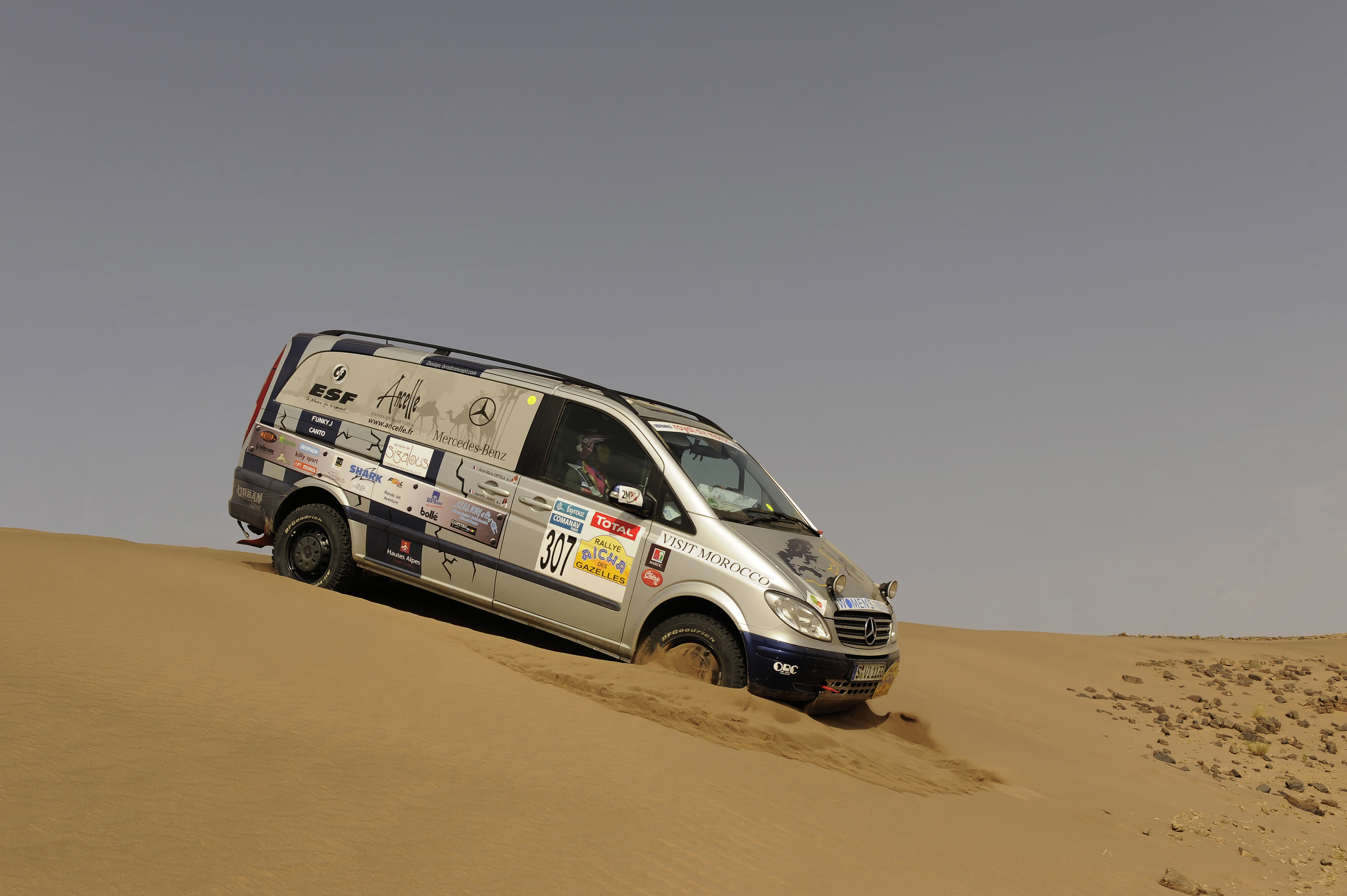 The viano passing through the dunes during the Rallye Aicha des Gazelles